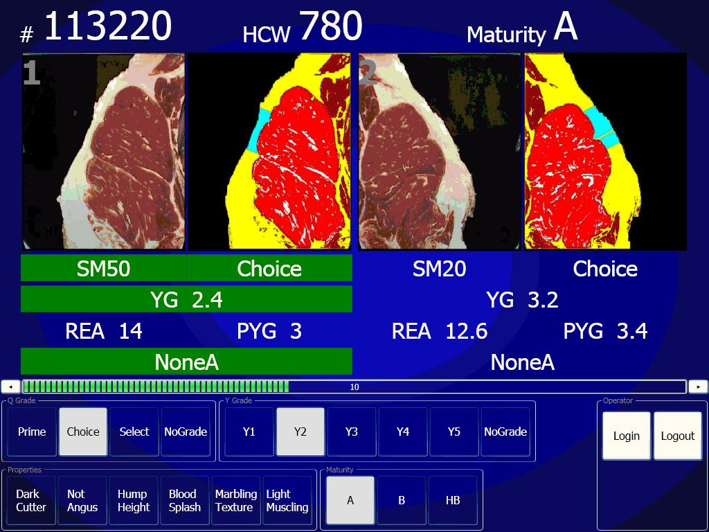 A screenshot from the electronic grading system showing USDA Choice, Yield Grade 2 beef. The left is the natural color view of the cut; the right is the instrument enhanced view that details the amount of marbling, size, and fat thickness. Beef grading is a complex and detailed process, requiring graders to think and calculate quickly with great accuracy. Using technology to compliment and supplement the onsite human graders generates an efficient and more precise process.